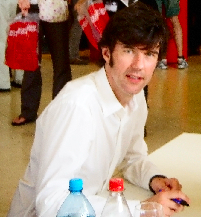 Stefan Sagmeister at the conference TYPO in Berlin in May 2008.